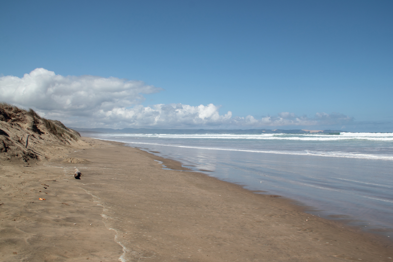 90 Mile beach and area The name Ninety Mile Beach is a misnomer because it is actually 55 miles (88 km) long.[1] Several theories have been advanced for the name, the most common stemming from the days when missionaries travelled on horse back when on average a horse could travel 30 miles (50 km) in a day before needing to be rested. The beach took three days to travel therefore earning its name, but the missionaries did not take into account the slower pace of the horses walking in the sand, thus thinking they had travelled 90 miles (140 km) - 07 October 2013 source